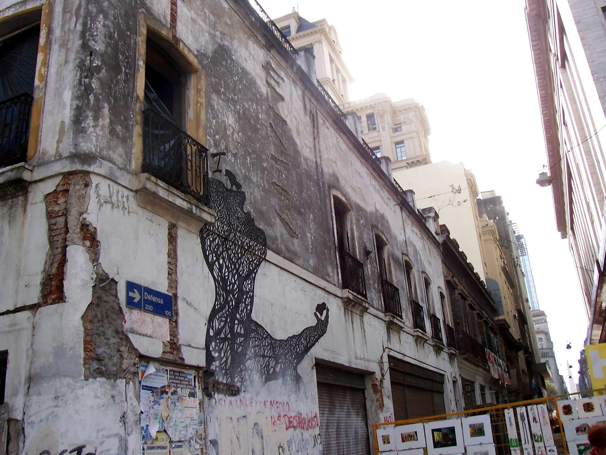 Image of Altos de Elorriaga, just prior to its restoration.